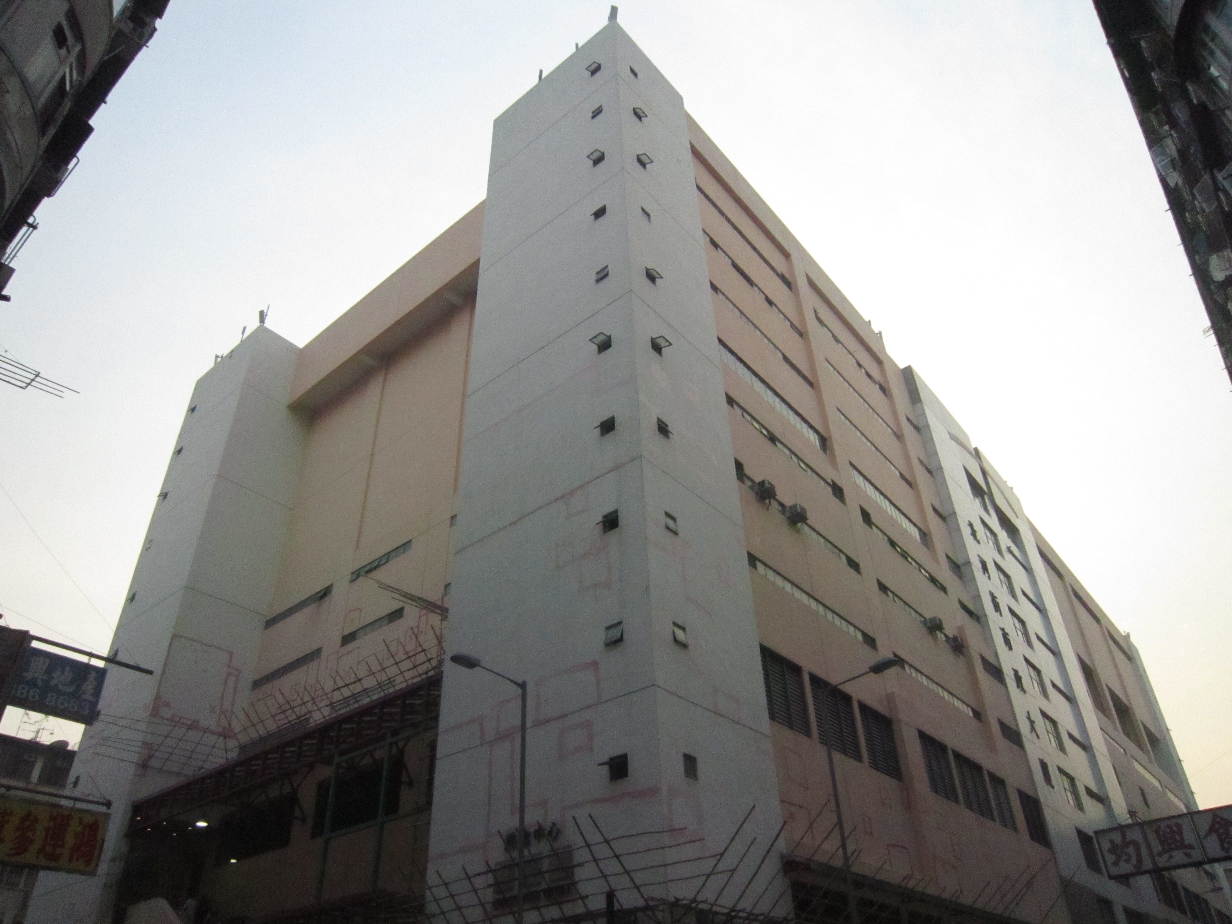 Pei Ho Street Municipal Services Building